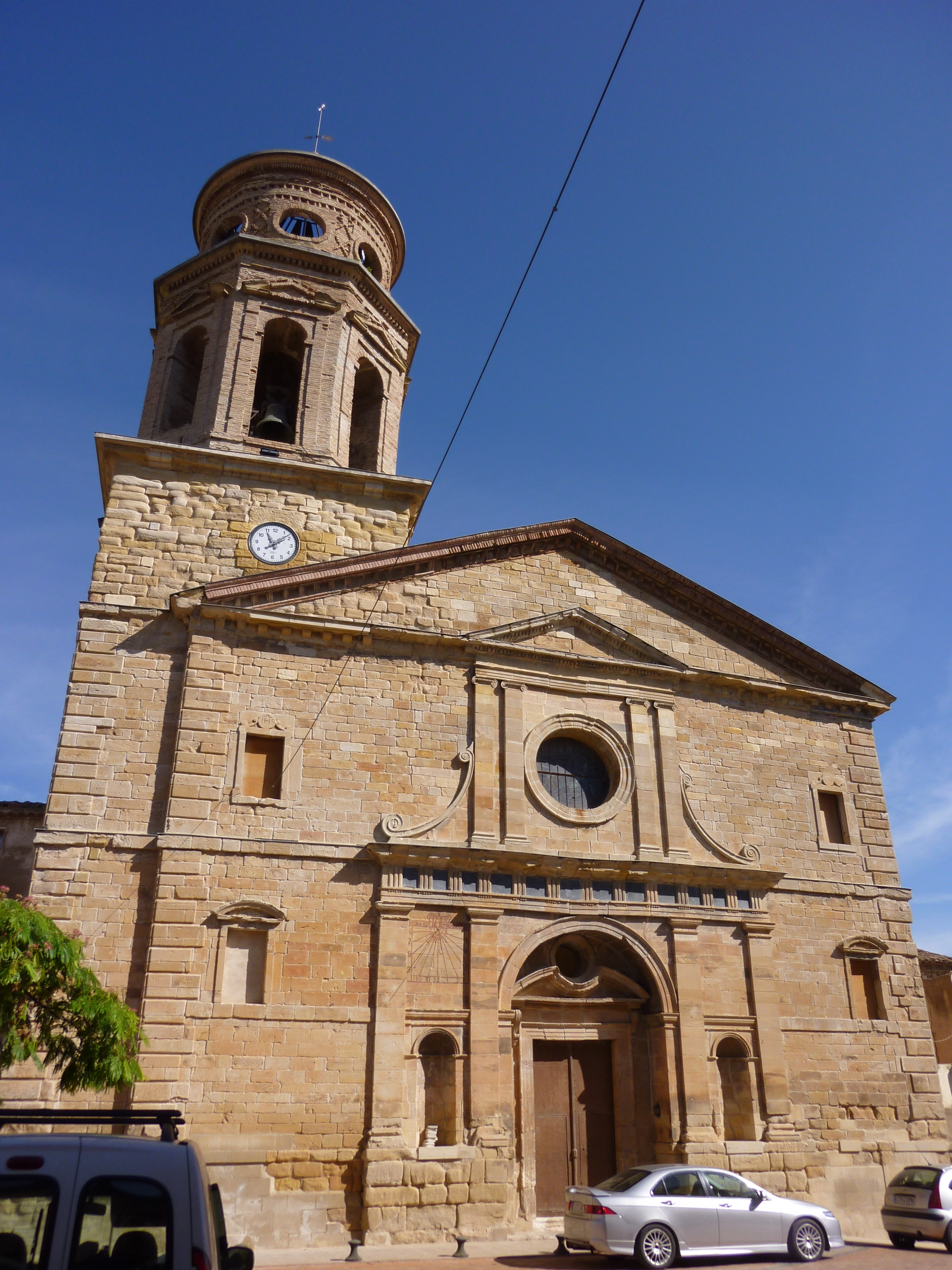 Church of St. James the Apostle in Ulldemolins (Priorat, Catalonia). Note the presence of two clocks on the facade one solar, with the latin inscription "HORA EST DE SOMNO SURGERE" and the other one mechanic.